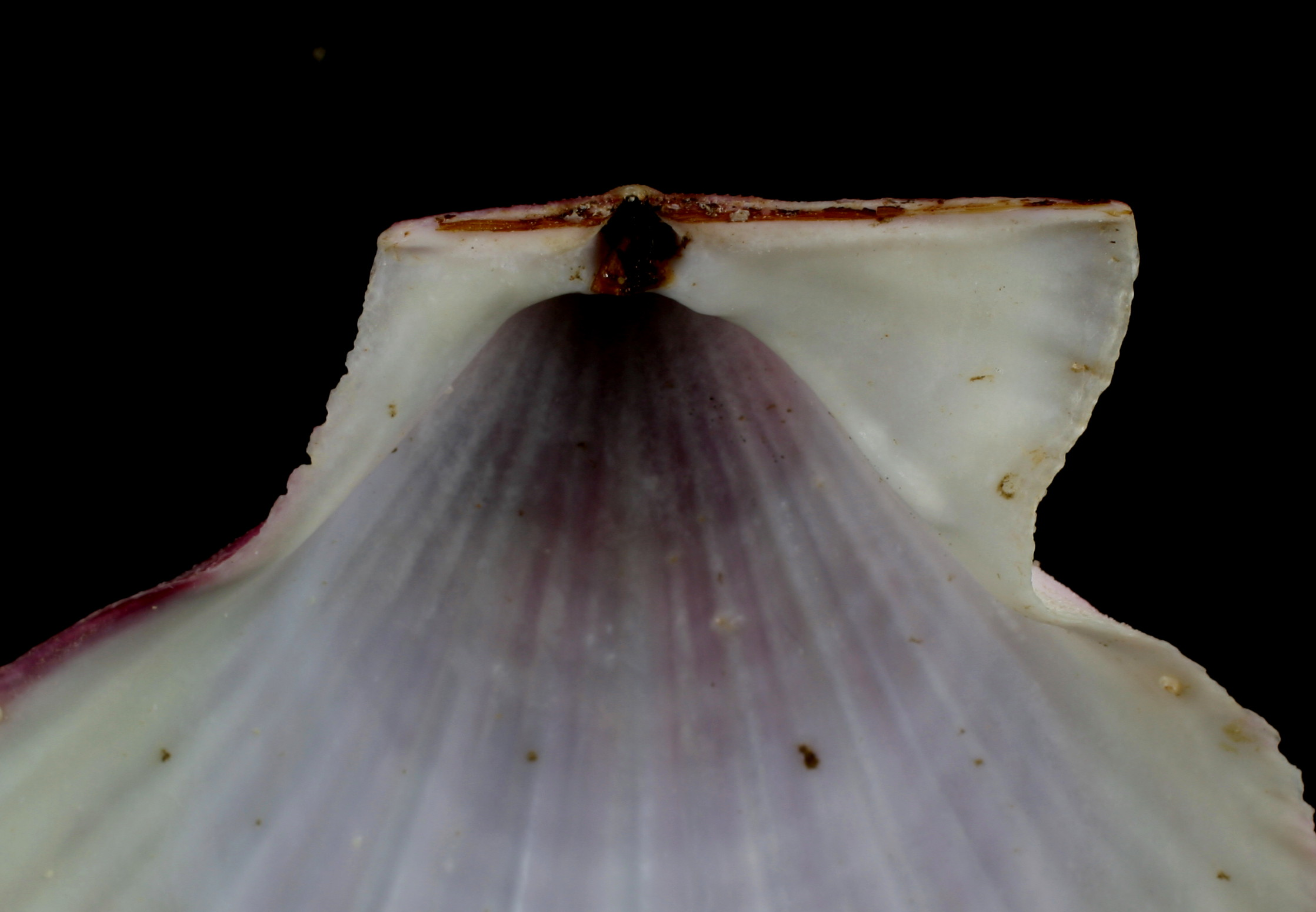 Pectinidae close up isodont hinge